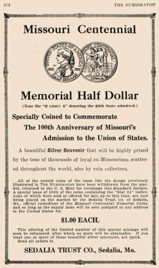 Portion of advertisement for Missouri Centennial half dollar showing unused design.